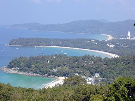 Phuket, Thailand shore. From south to north (close to distant): Kata Noi Beach, Kata Beach, Karon Beach.